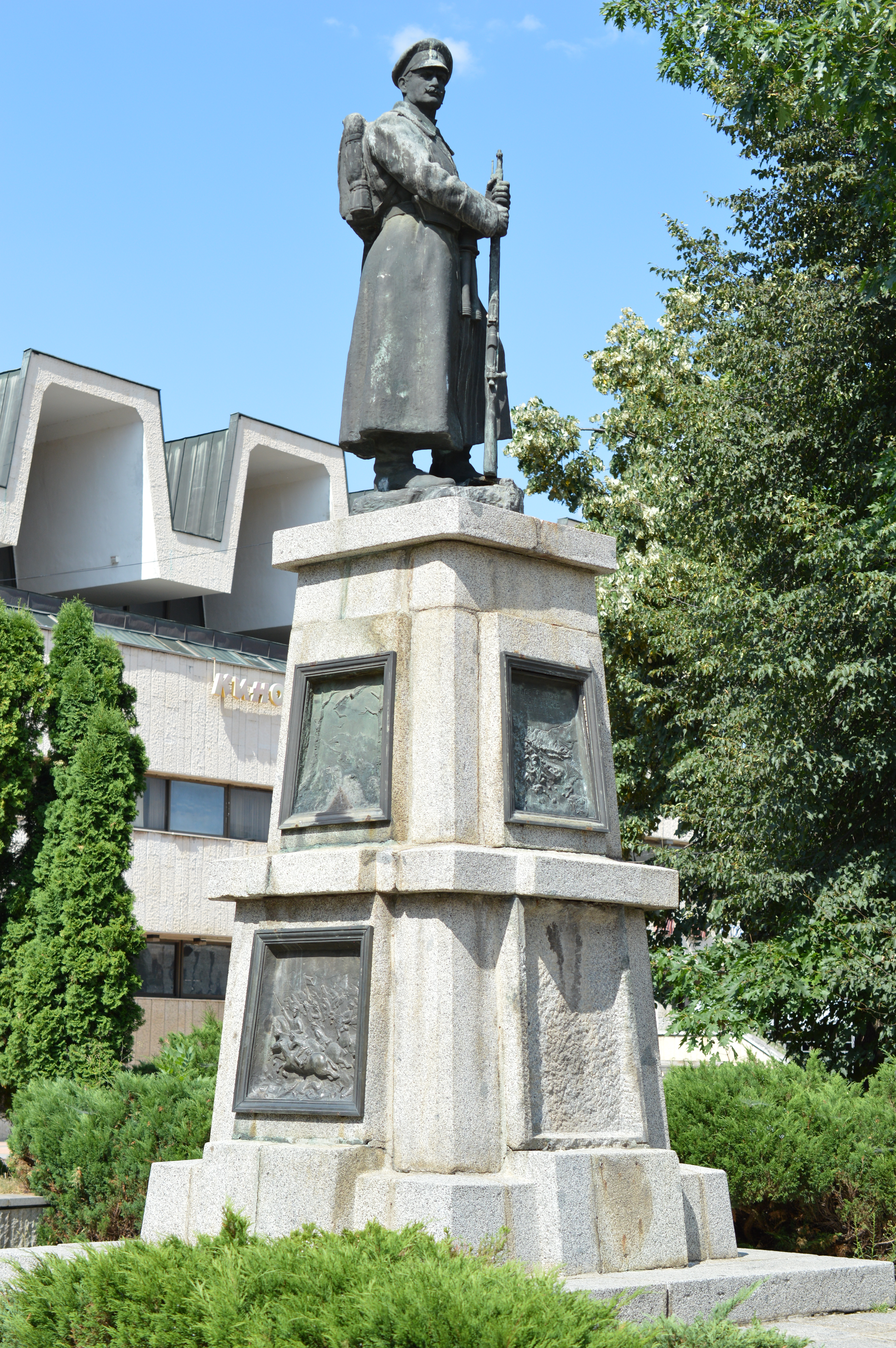 Monument to the Unknown Soldier, Botevgrad, Bulgaria.